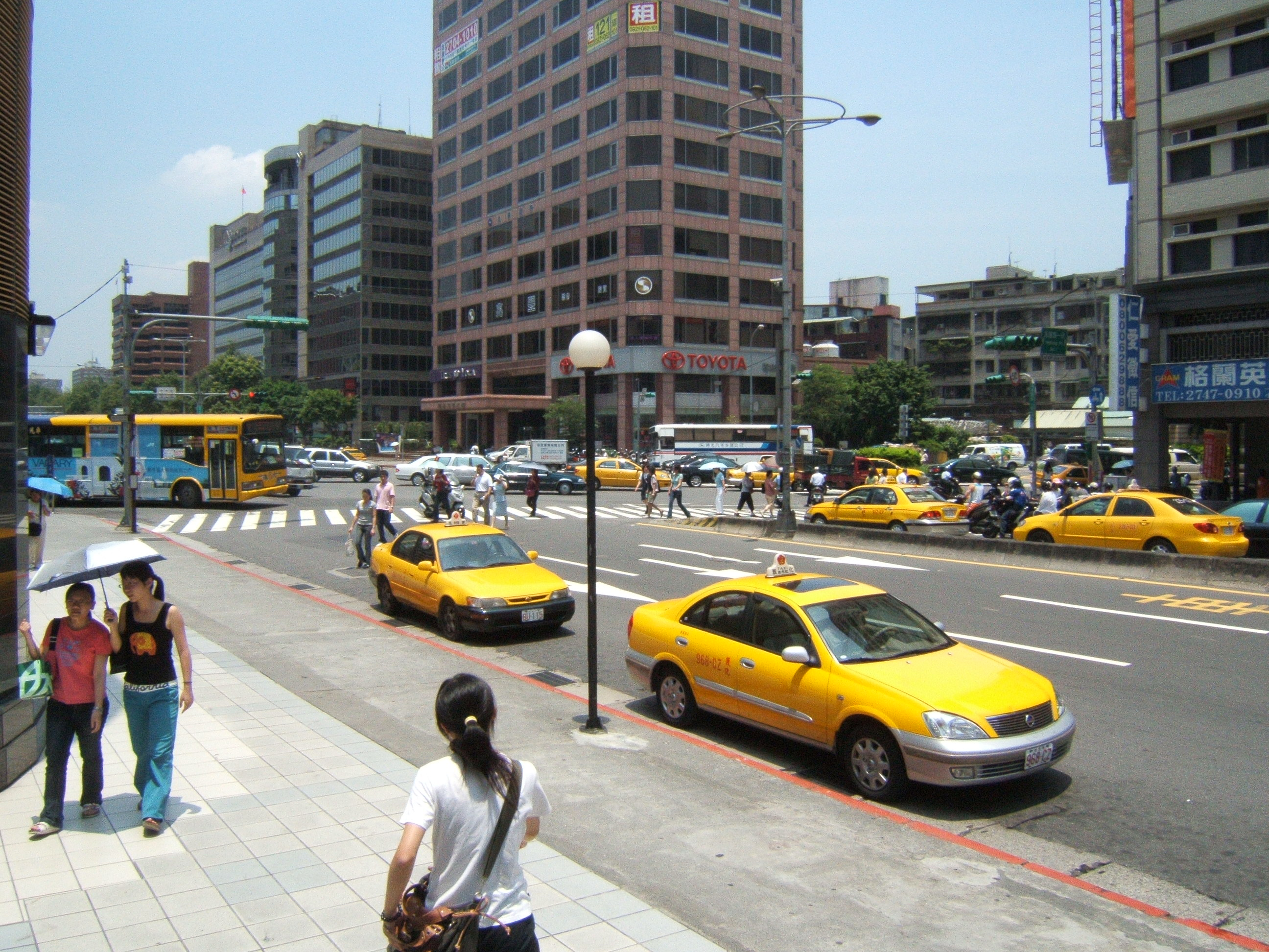 Zhongxiao East Road and Jilong Road intersection, Xinyi District, Taipei City.中文（台灣）: 由臺北捷運市政府站2號出口附近遠眺忠孝東路四段、五段與基隆路路口。